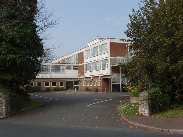 Dunboyne care home, Torquay A Community Care Support Centre run by Torbay NHS Care Trust. It is in St Marychurch Road, St Marychurch.